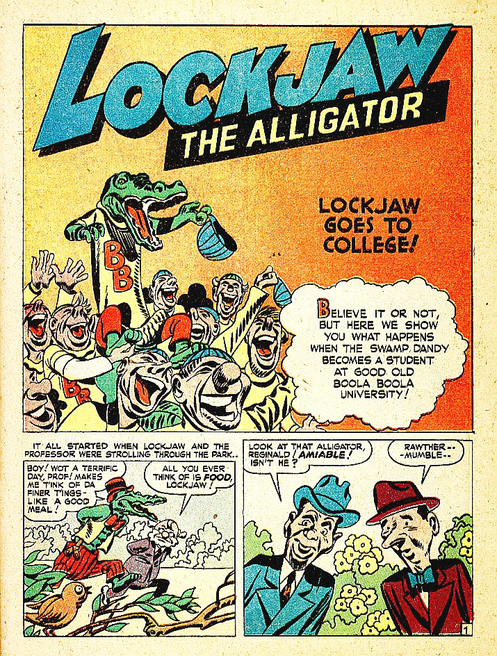 Comic page of Punch and Judy Comics Volume 3, n. 1 Page 35